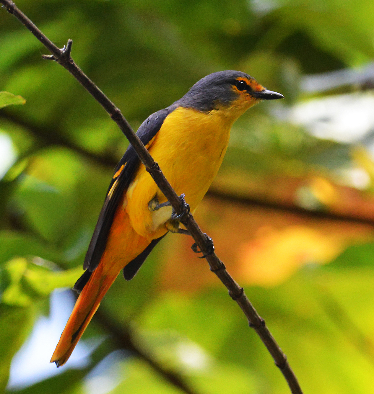 Puerto Princesa City, Palawan, Philippines